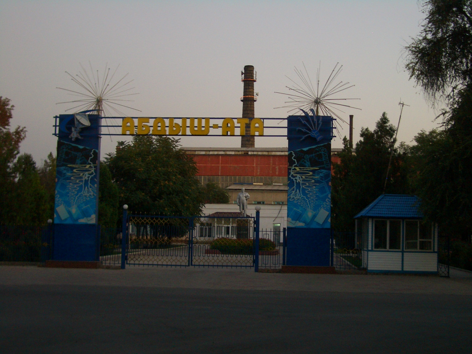 The gates of Abdysh Ata, one of Kyrgyzstan's largest breweries, in Kant City